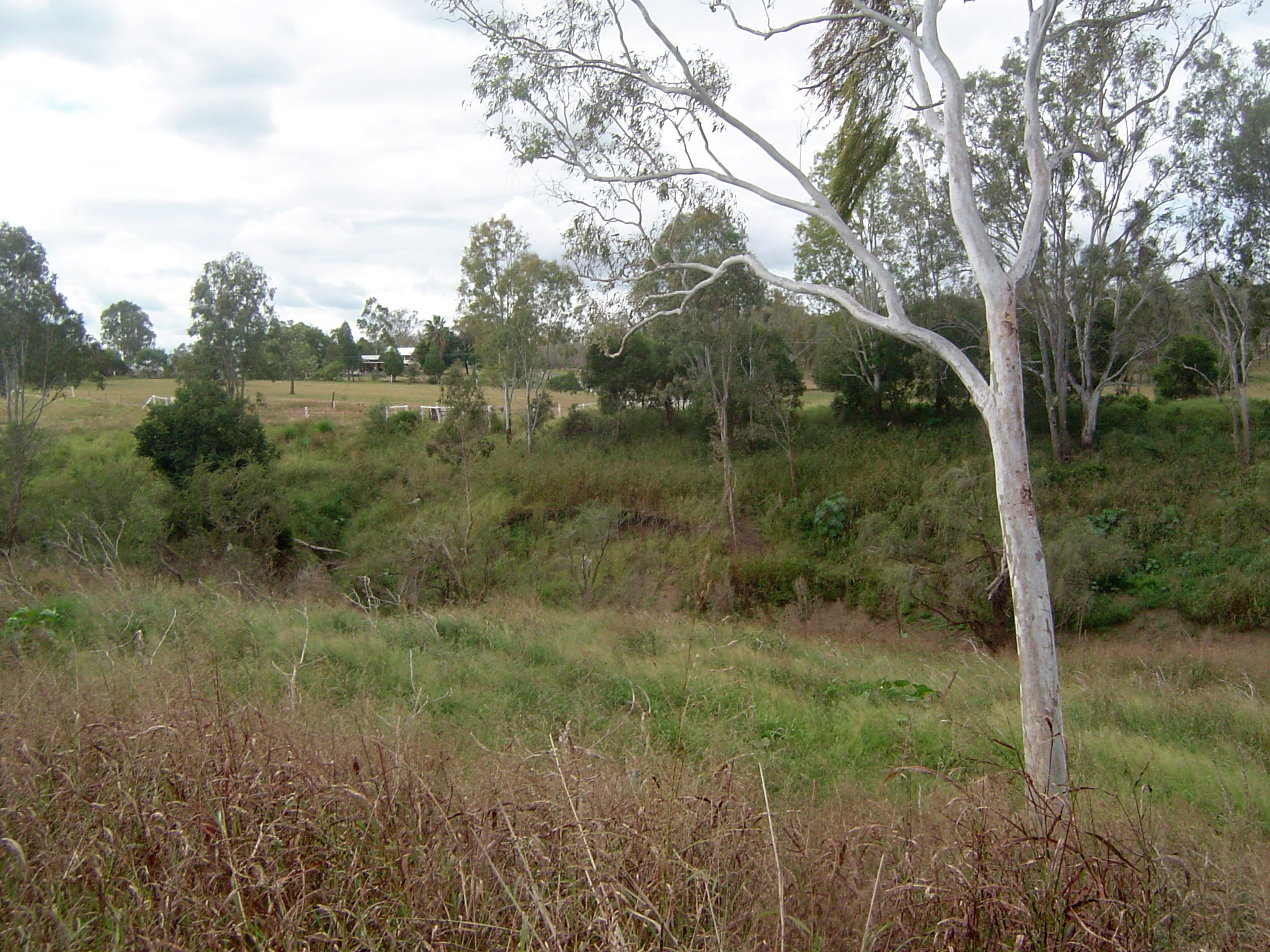 Photo of lower Lockyer Creek adjacent to Forest Hill-Fernvale Road at Rifle Range, South East Queensland, Australia